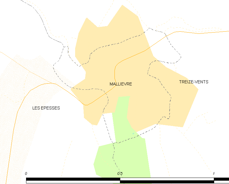 Map of French municipality Mallièvre